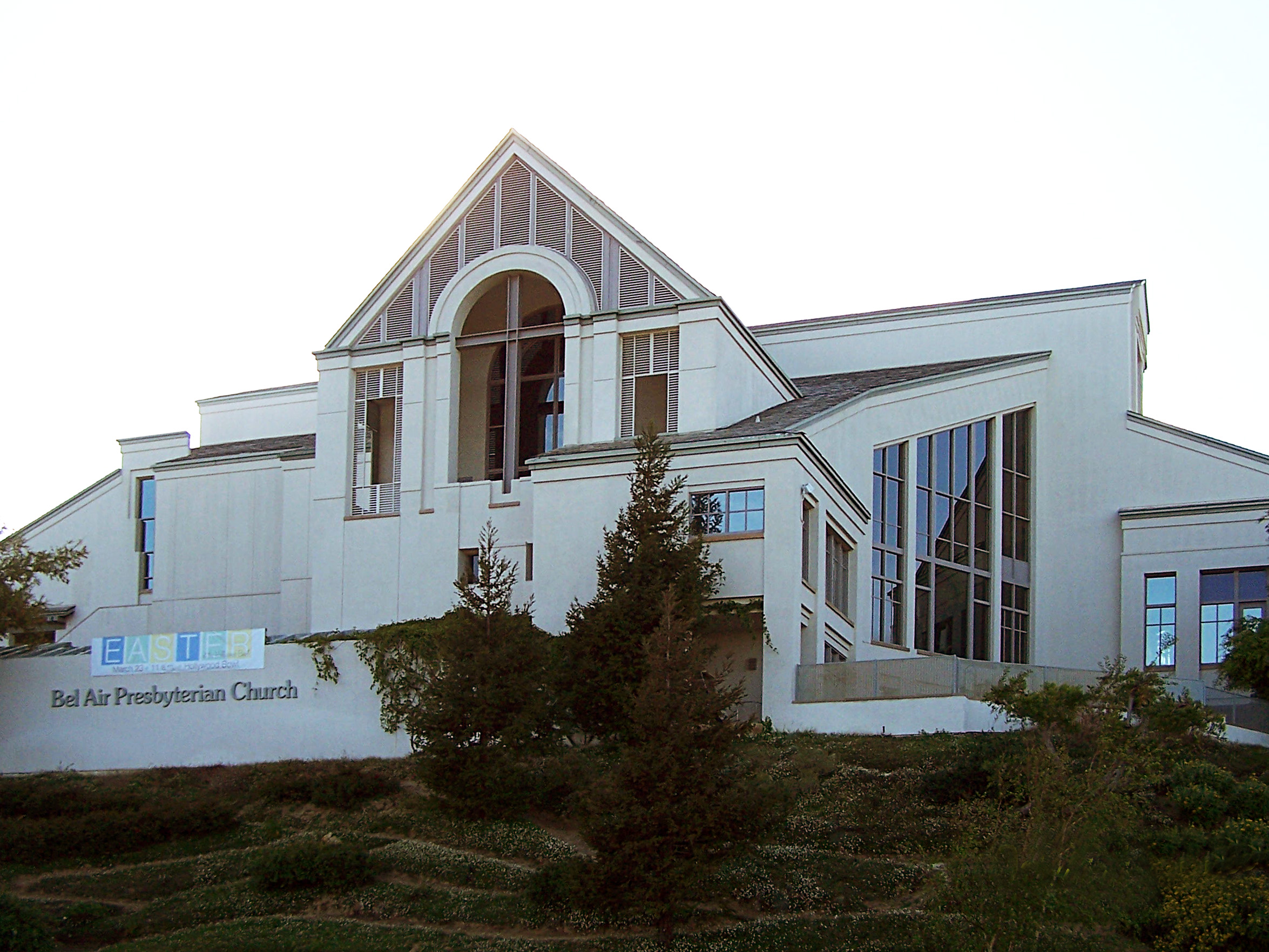 Bel Air Presbyeterian Church, Mulholland Drive entrance.